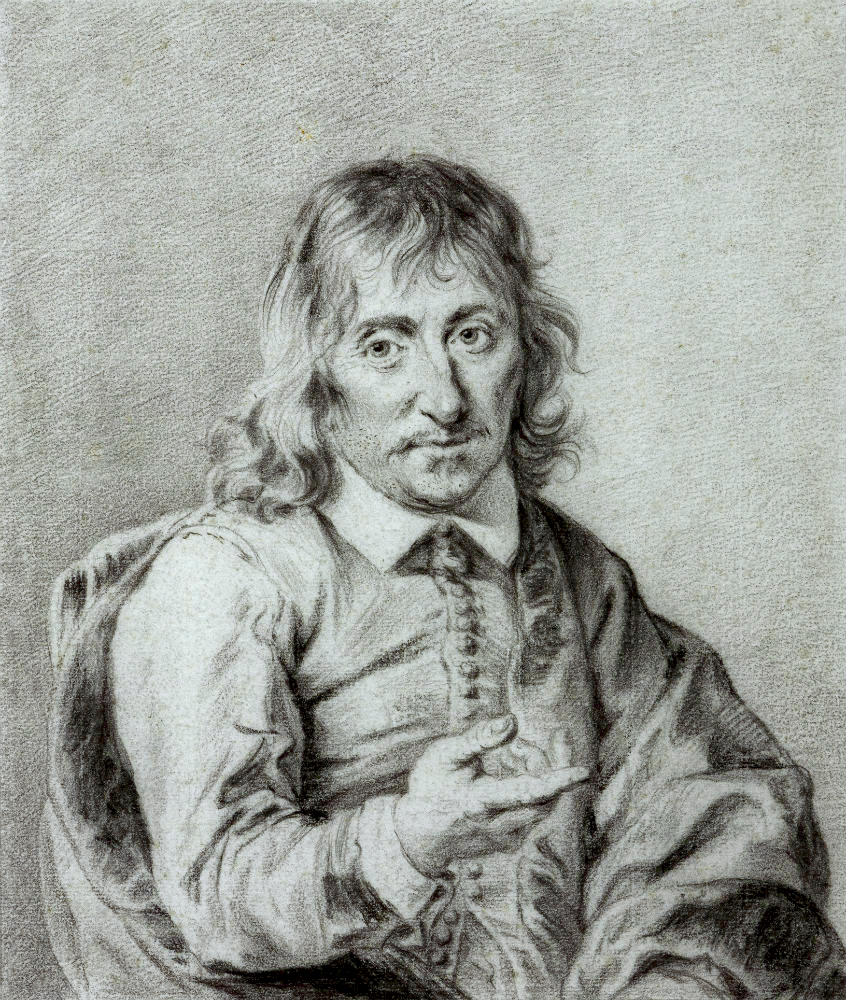 René Descartes by Jan Lievens, c. 1644–49, Groninger Museum. Black chalk, 241 x 206 mm